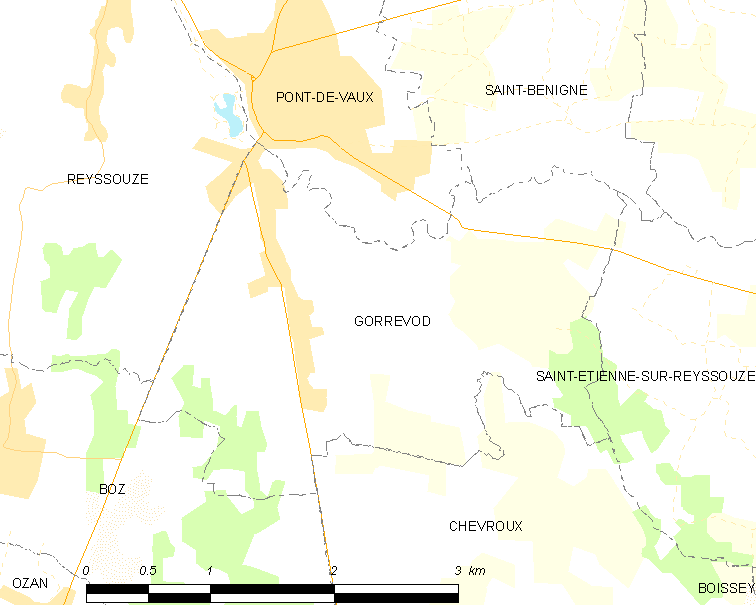 Map of French commune: Gorrevod Map commune FR insee code 01175.png